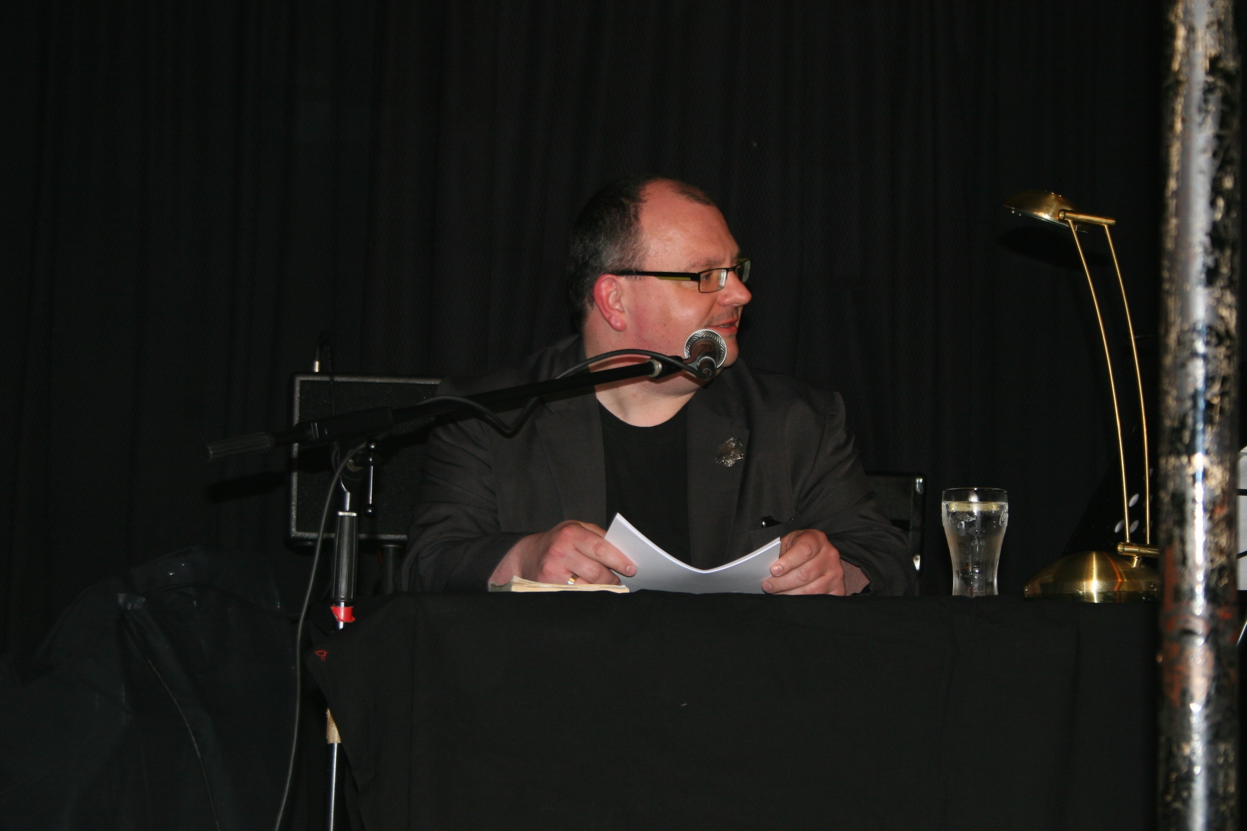 Der deutsche Romanautor Michael Schreckenberg auf einer Lesung.